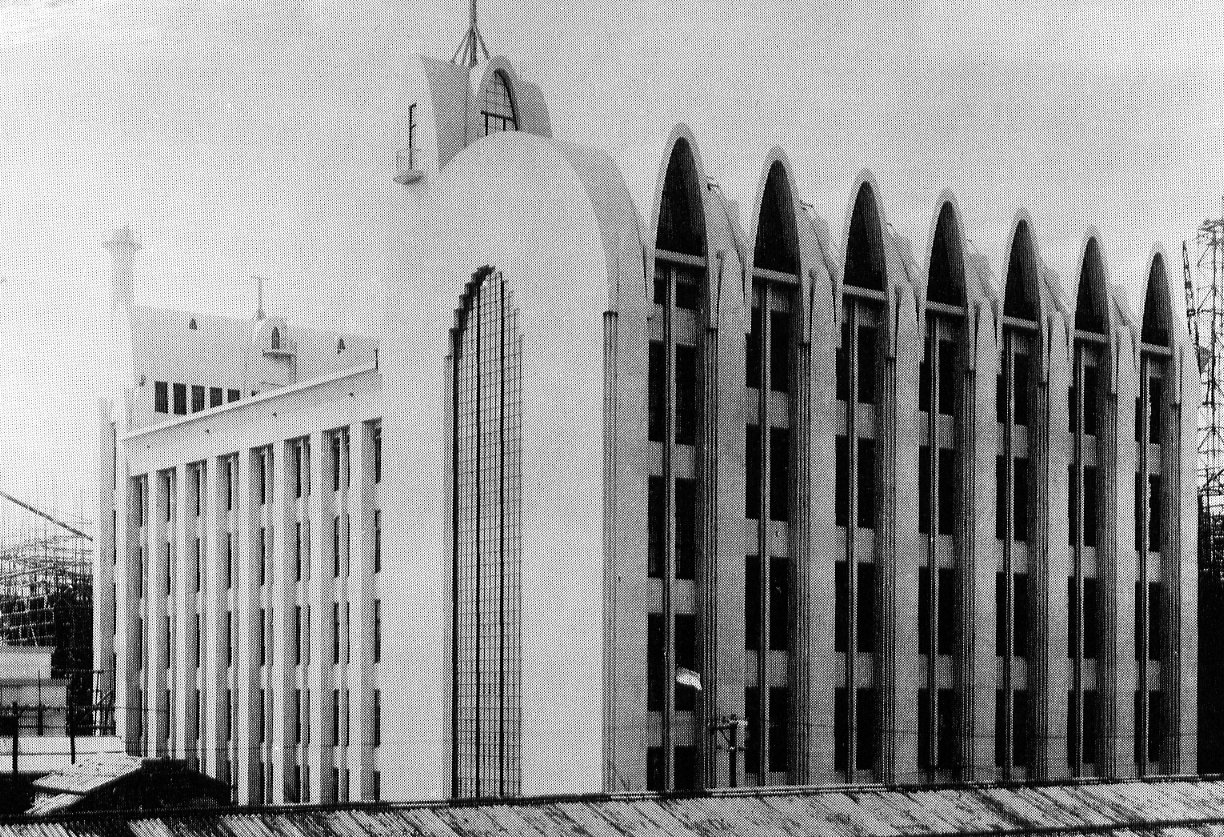 Yamada Mamoru: Central Telegraph Office, Tokyo, 1925.